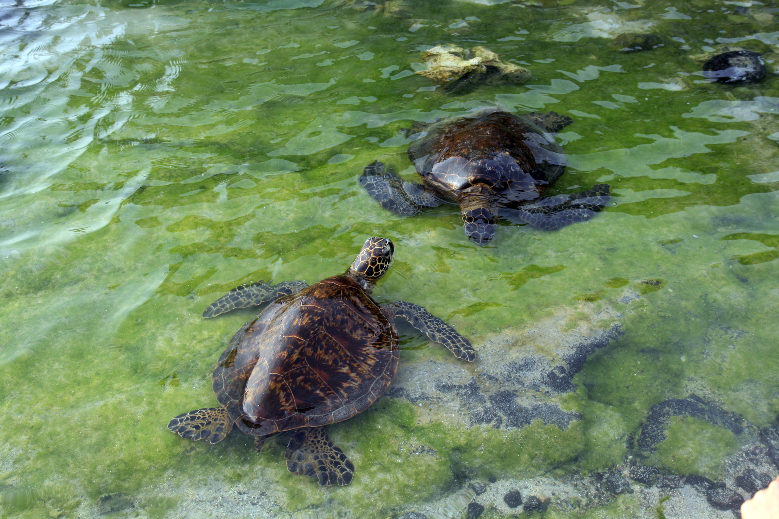 Green turtles, Chelonia mydas in Tide pool in Kona